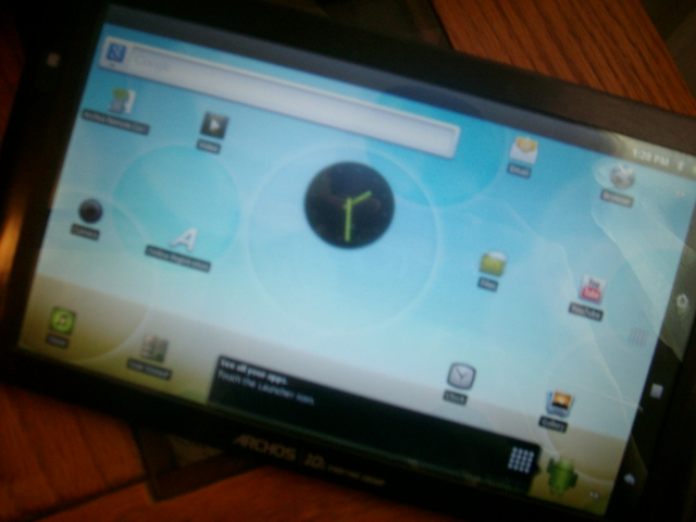 A snapshot of the Archos 101 IT in landscape mode.